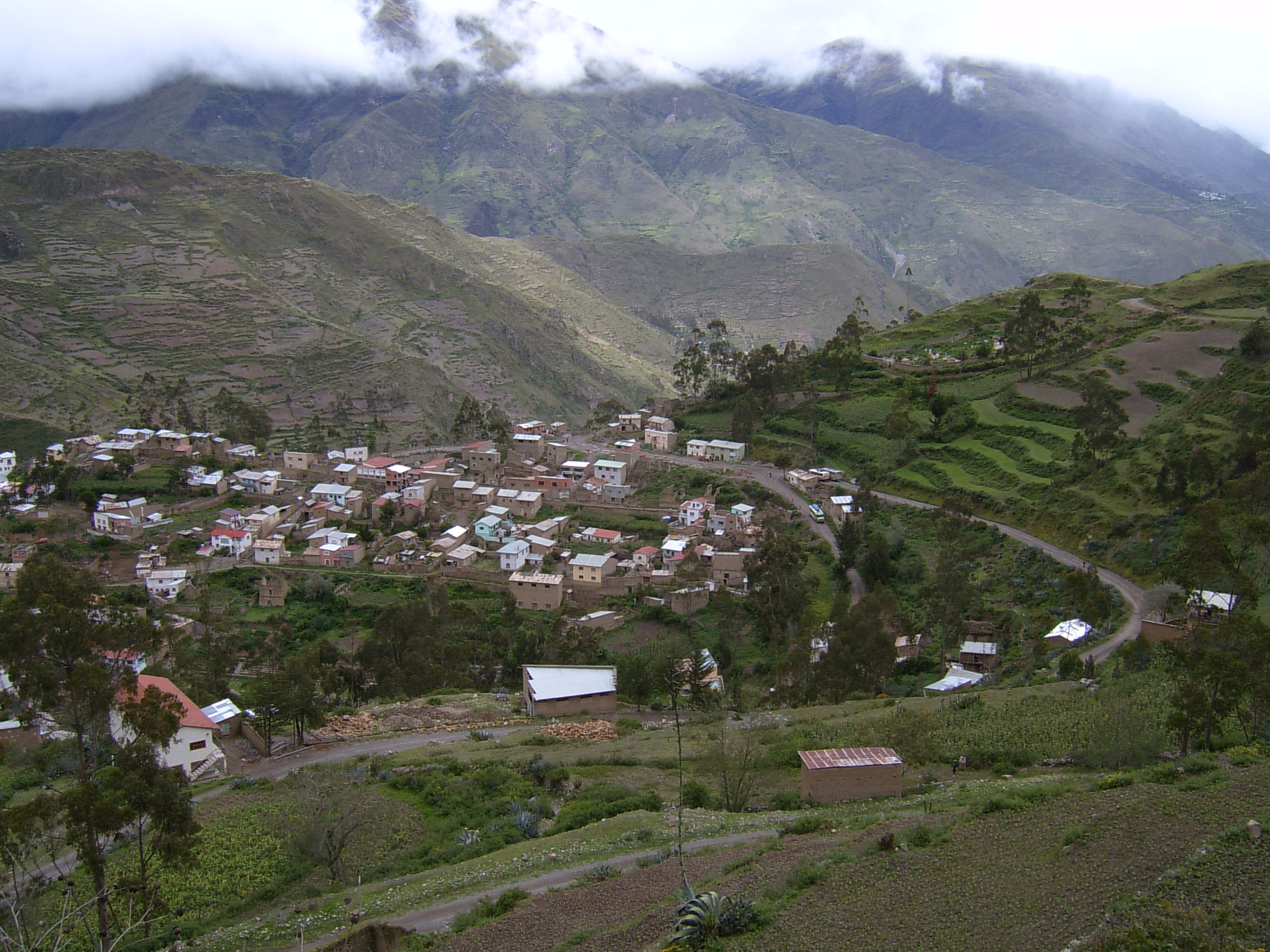 Autor:Walas